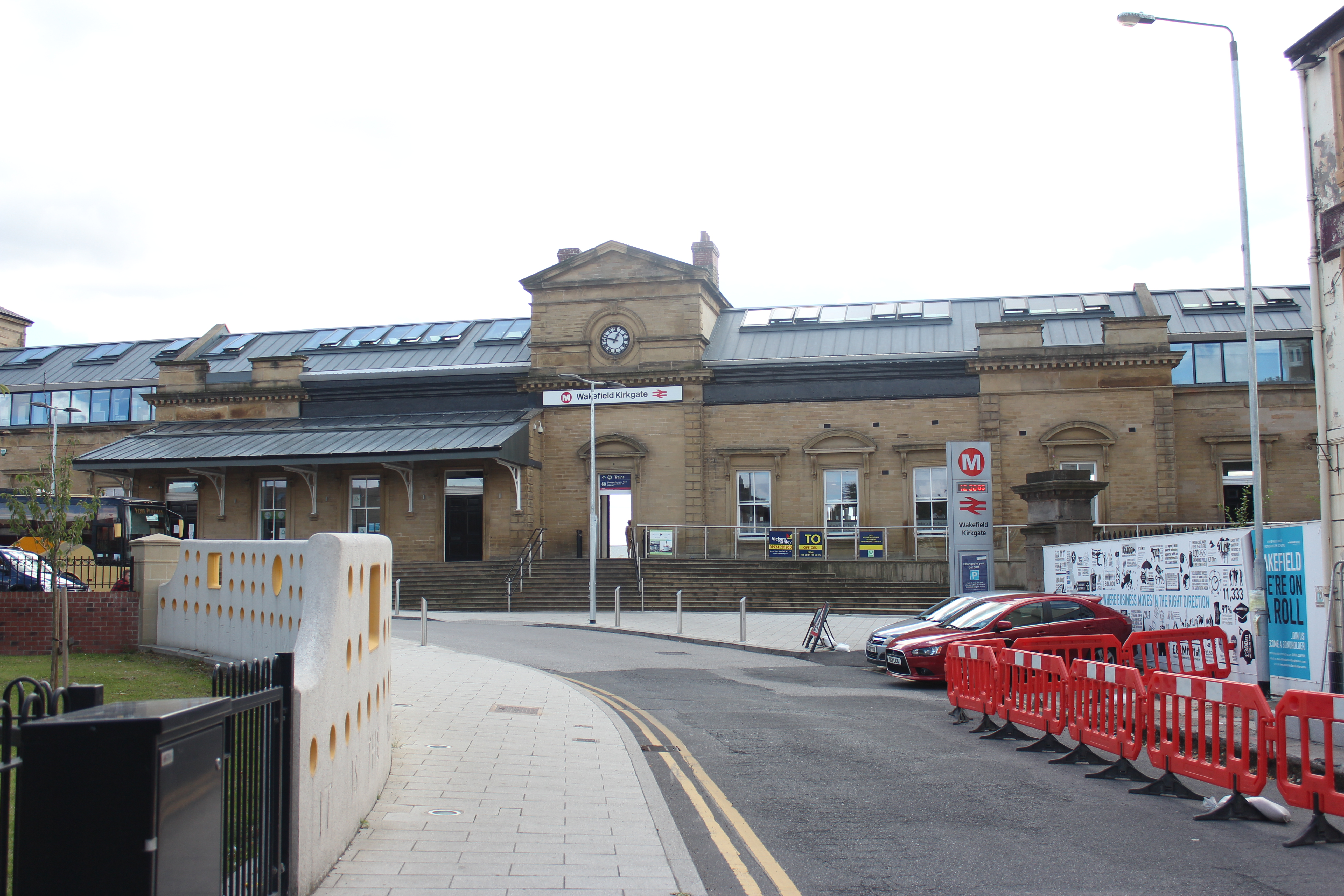 The station frontage of Wakefield Kirkgate railway station in August 2017.